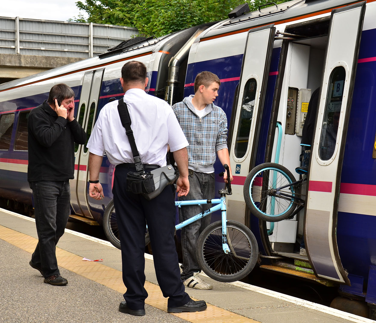 Loading bikes - Beauly station. Scotrail provided some room for bikes, much appreciated on this Inverness bound service.